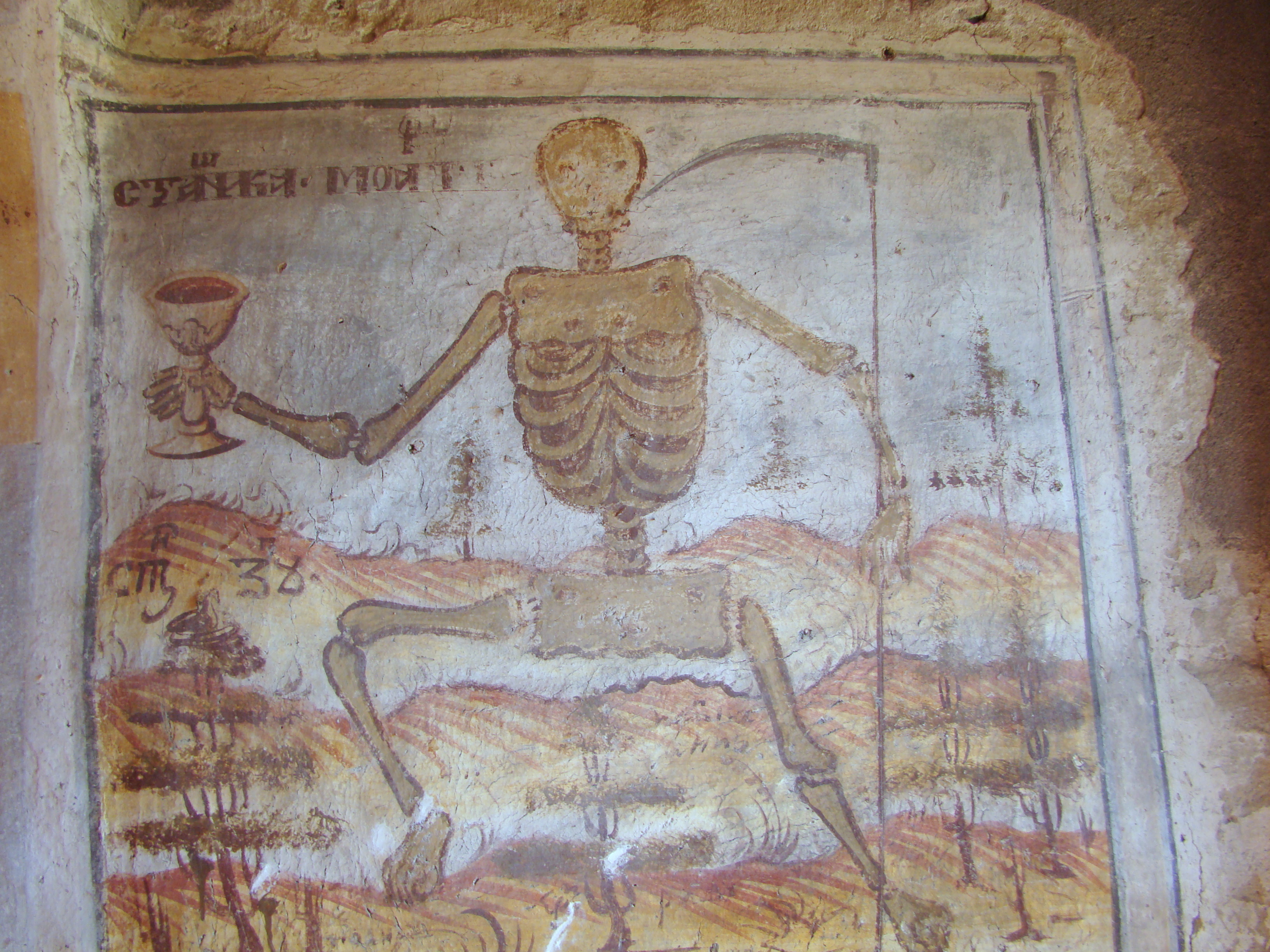 Saint Paraskeva's church in Mesentea, Alba county, Romania